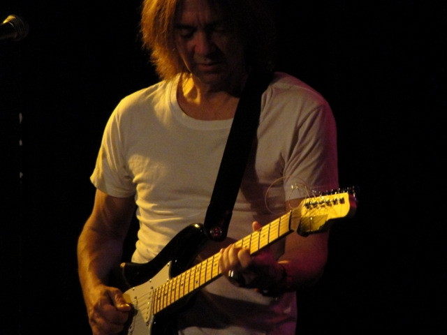 Wayne Krantz by Rich M